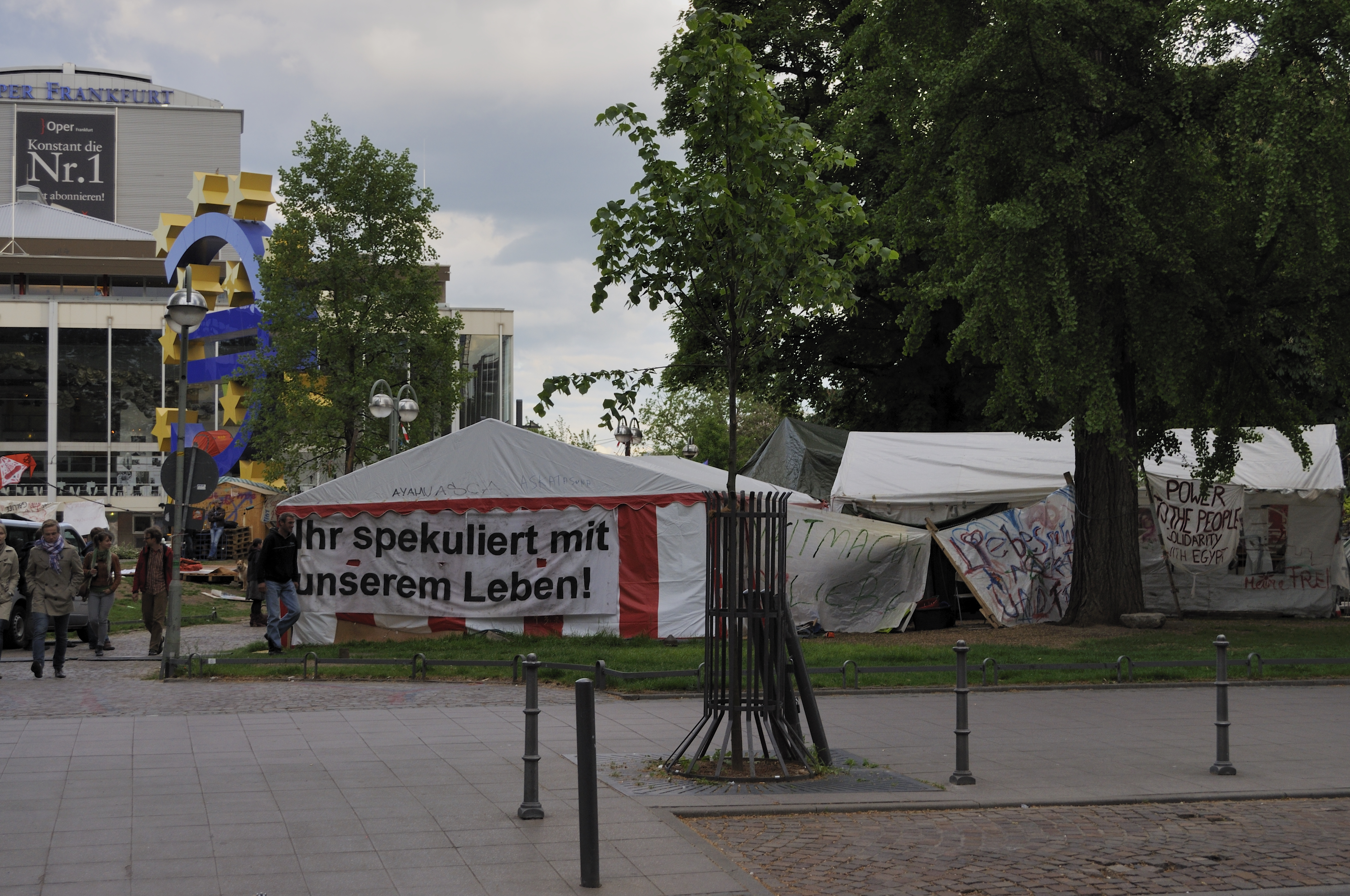 Blockupy tents.